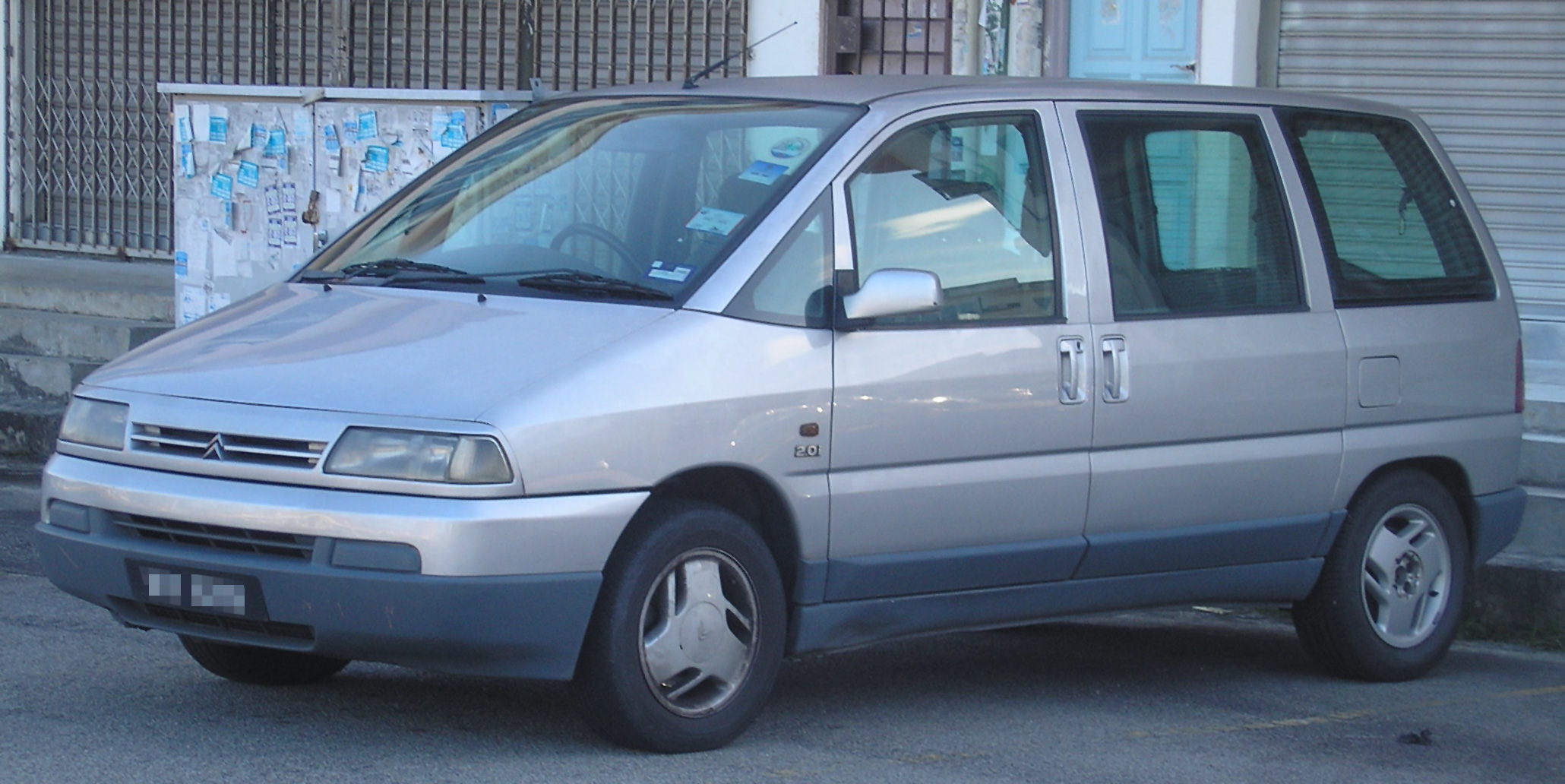 Front quarter view of a first generation Citroën Evasion (a first generation Eurovan), in Serdang, Selangor, Malaysia.